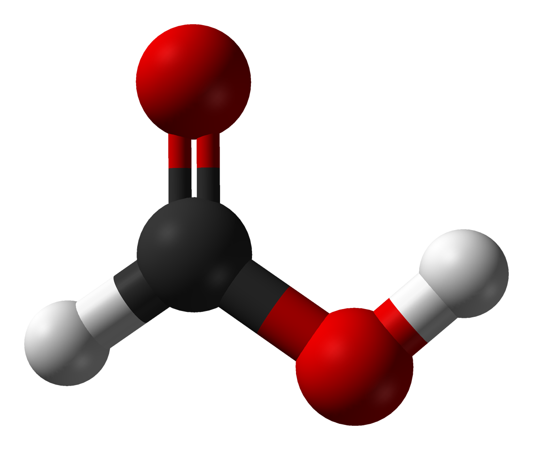 Ball-and-stick model of the formic acid molecule, HCO2H, molecular formula CH2O2. Structure, determined by microwave spectroscopy, from CRC Handbook, 88th edition. Image generated in Accelrys DS Visualizer.